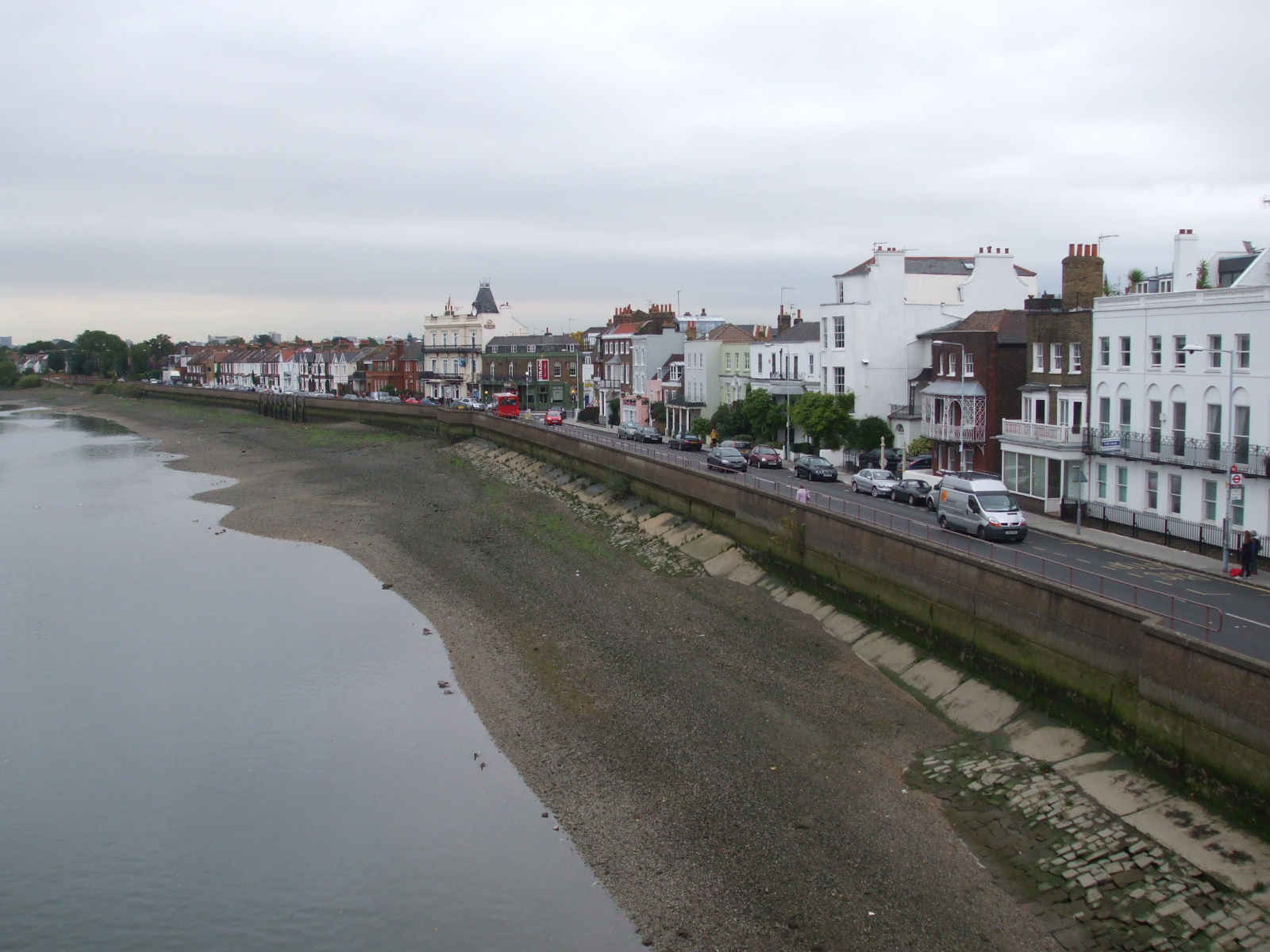 Barnes Bridge looking east towards Barnes